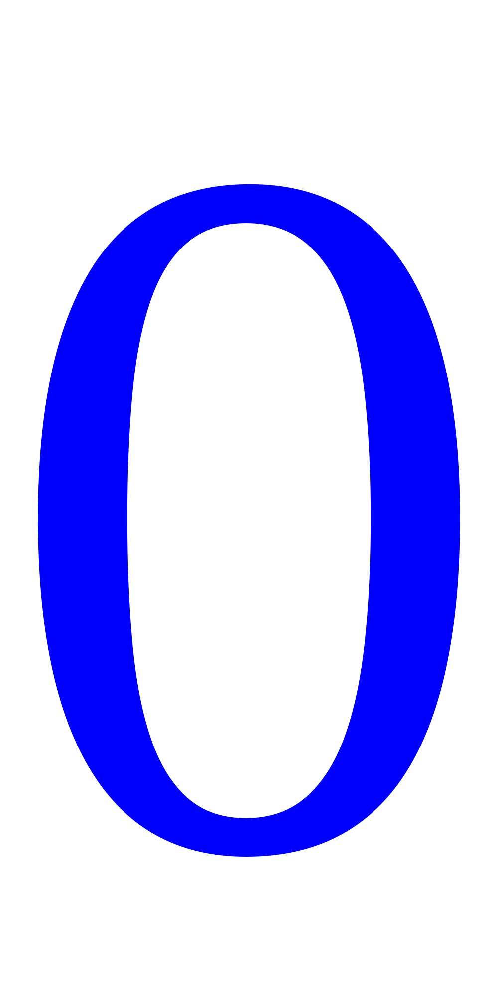 Number 0